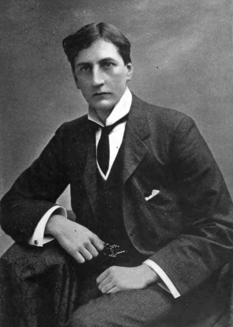 A. E. W. Mason